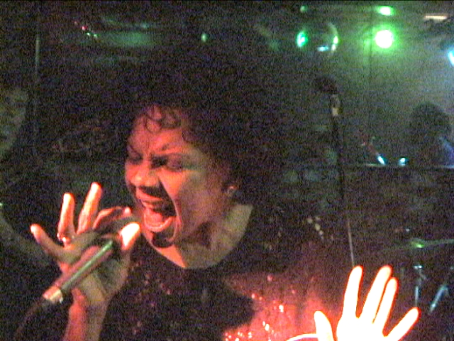 Susan Cadogan in 2004 self-made. Wwwhatsup (talk) 14:43, 8 February 2008 (UTC)